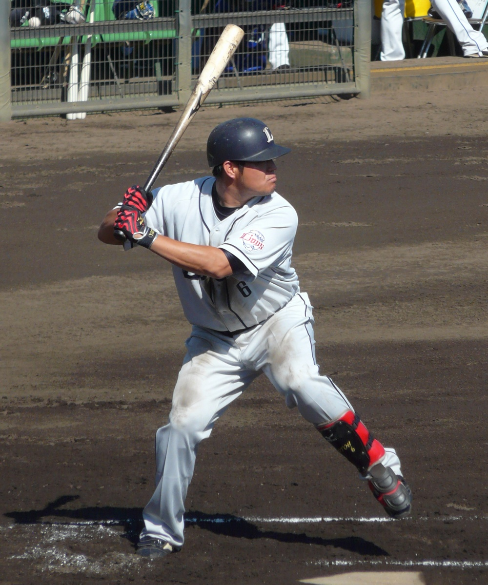 Taketoshi Gotoh, infielder of the Saitama Seibu Lions, at Yomiuri Giants Stadium.